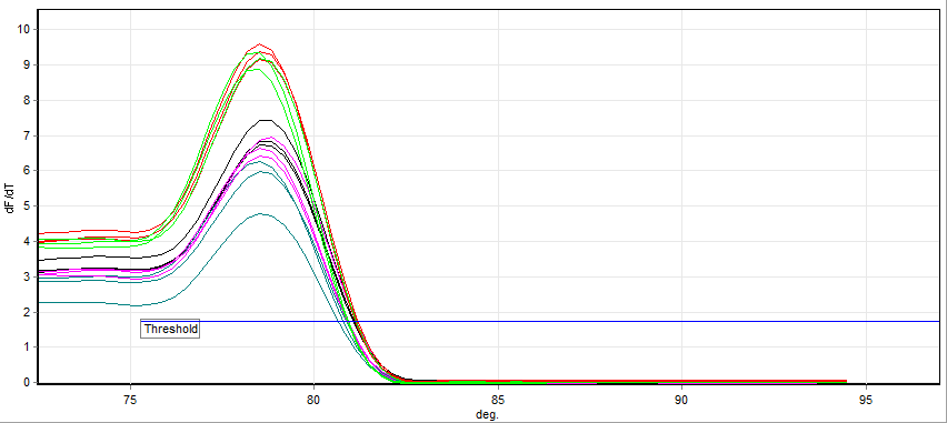 Melting curve for five samples, three replicates each, which is a result of melting temperature analysis of quantitative PCR results (qPCR).